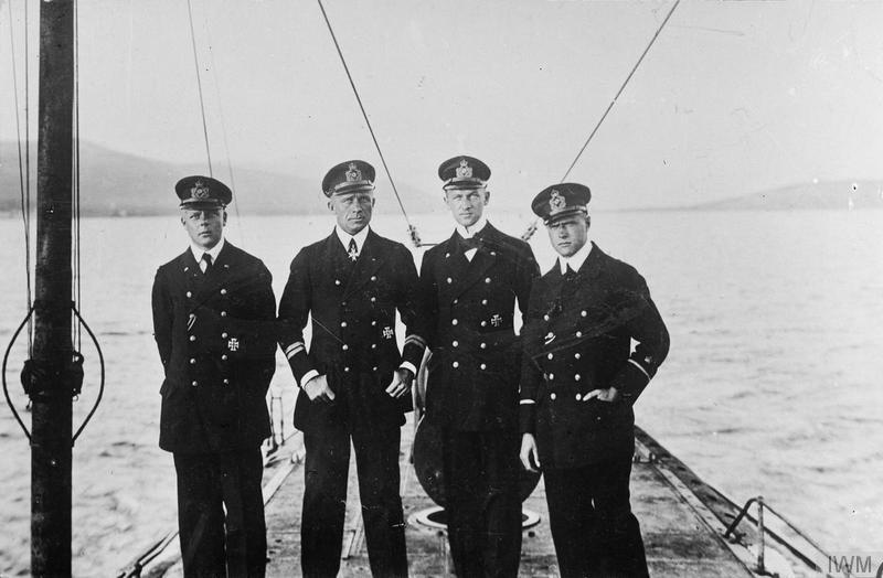 The German Navy in the First World War Kapitan-Leutnant Lothar von Arnauld de la Periere (second from the left) and his officers on the deck of the German submarine U35.